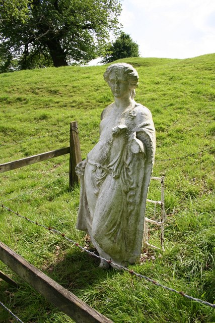 The White Lady. The mysterious white lady of North Ormsby [TF281929] ... a lifesized statue of a woman in a classical style that has been here for hundreds of years, no-one really knows how or why she came to be here, but there are countless folk tales about her. Some say it's Roman, others say 18th century in the Greek style, the site reputedly marks the spot where a woman was once killed whilst out hunting. The valley is rich in history and she stands on the site of a Gilbertine Priory founded in 1184 and close to the deserted medieval village of North Ormsby. Whatever the truth, she has become the patroness of this beautiful valley. The White Lady is on private land and permission should be sought from the owners at Abbey Farm first.